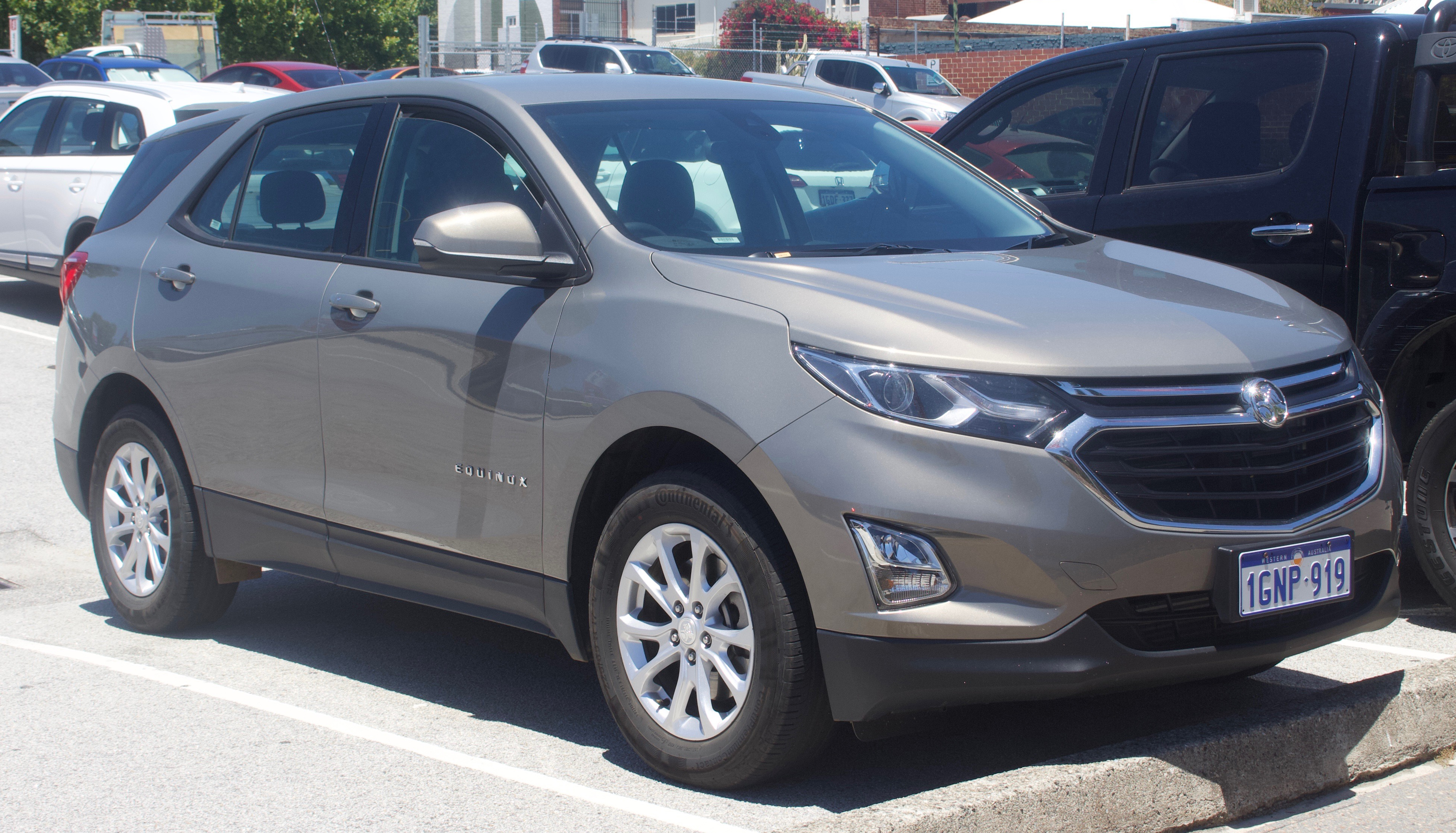 2018 Holden Equinox (EQ) LS wagon. Photographed in Fremantle, Western Australia, Australia.